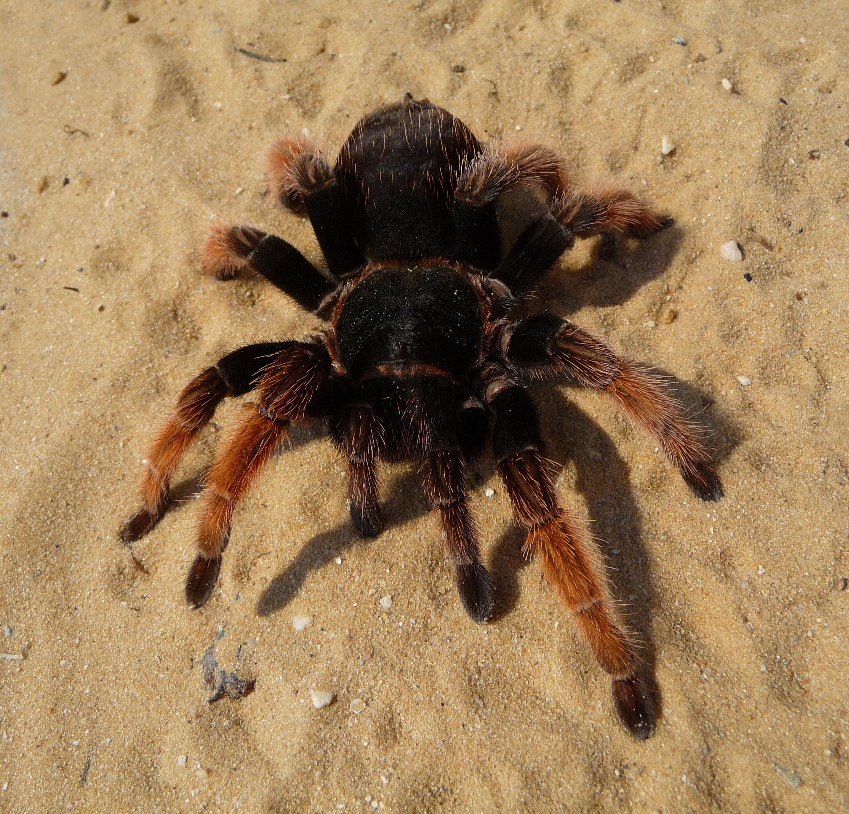 Mexican Pink tarantula Brachypelma klaasi (Schmidt & Krause, 1994). Adult female